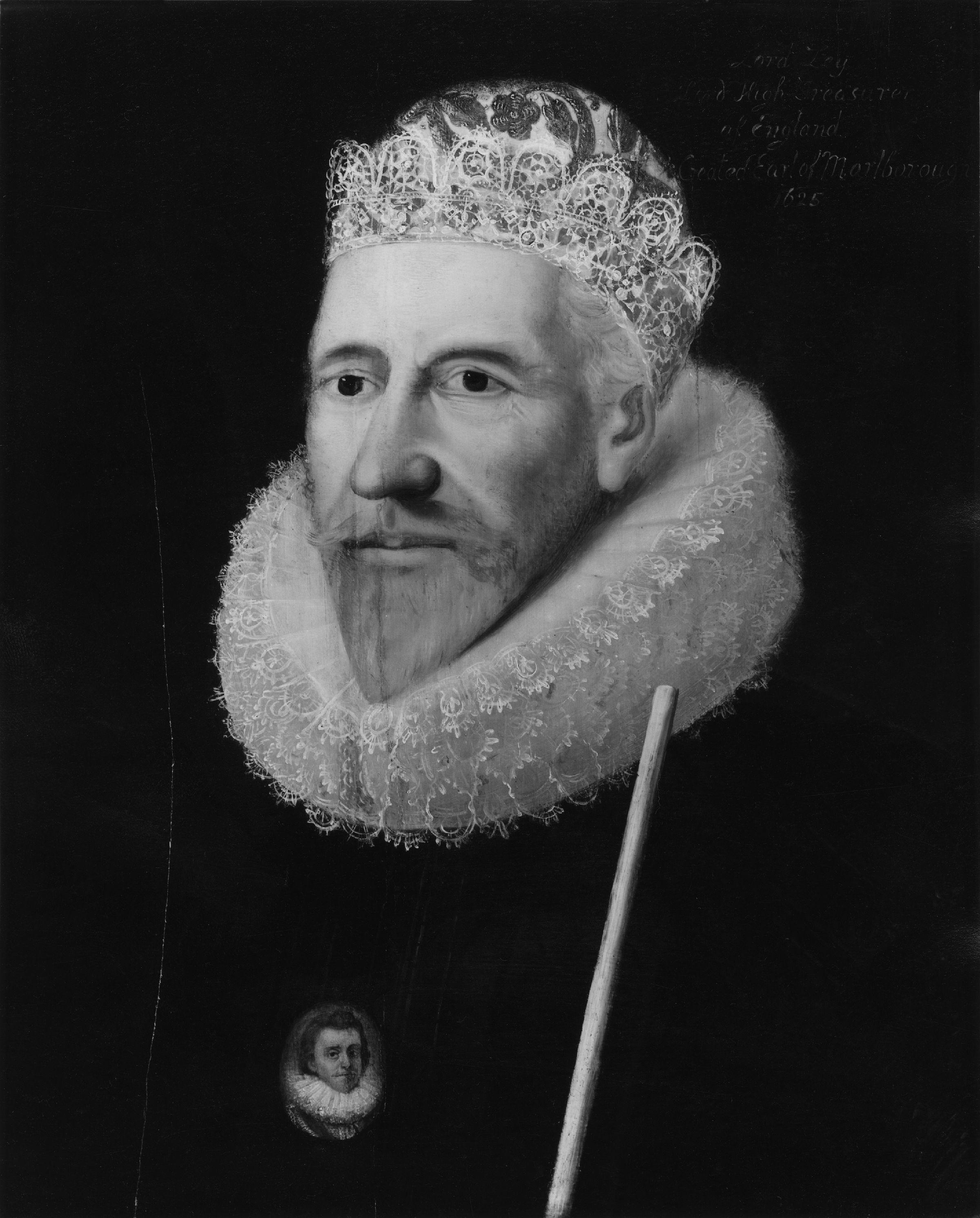 James Ley, 1st Earl of Marlborough, by unknown artist. All images in this batch have an unknown author, but there is strong evidence it was first published before 1923 (based mainly on the NPG's estimated date of the work).